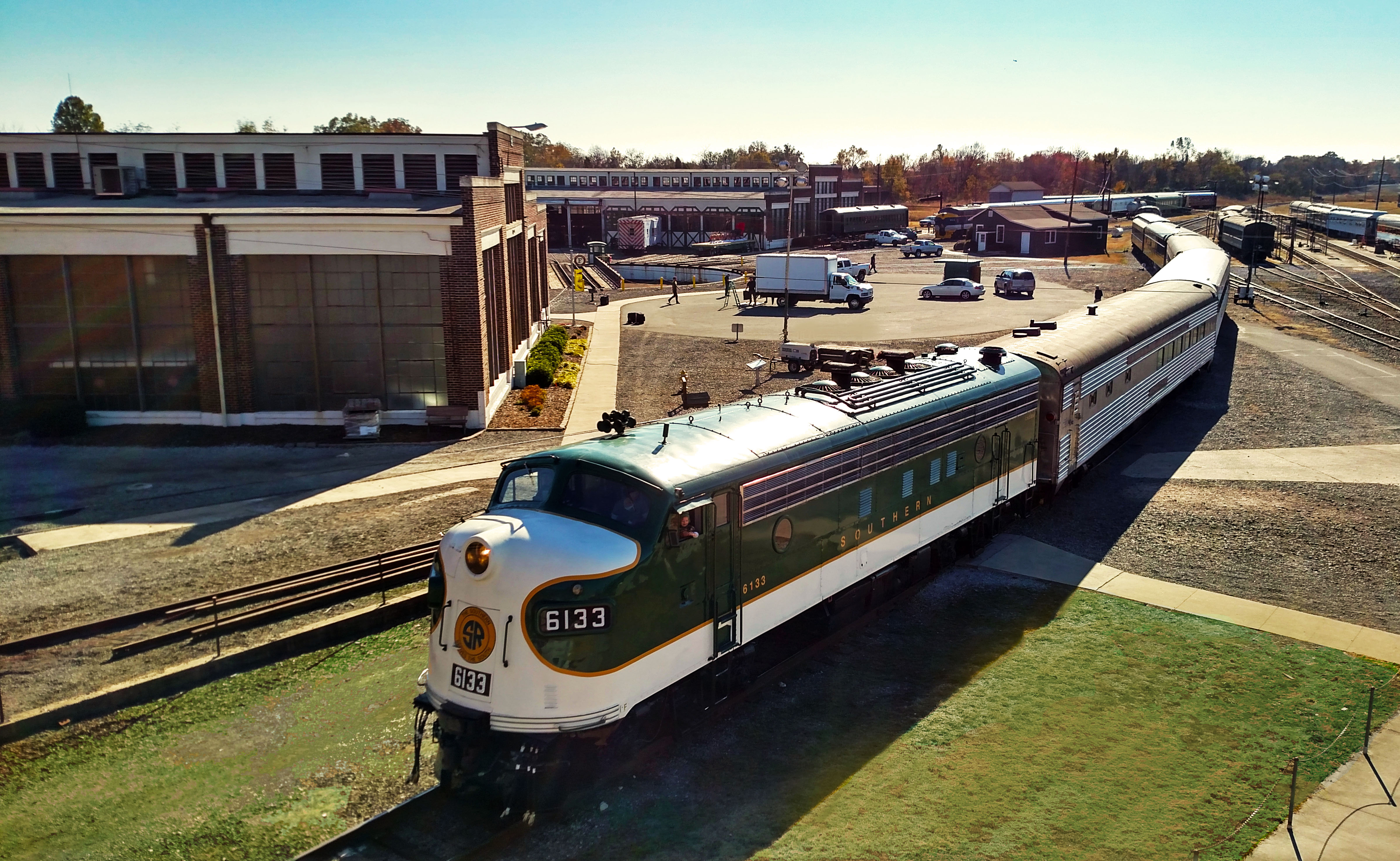 The Southern Railway #6133 diesel locomotive is one of the museum's primary locomotives for pulling the onsite train ride.